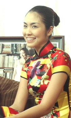 Tăng Thanh Hà